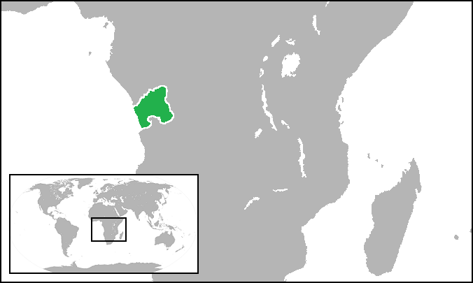 Map of the Kingdom of Kongo, c. 1600. (Partially based on Atlas of World History (2007) - The World 1500-1600, map